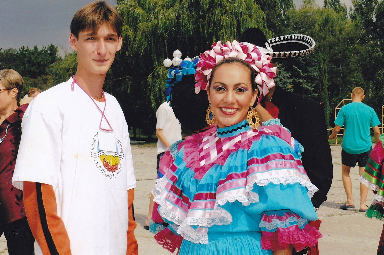 Festival in Poltava 2005